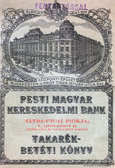 a specimen of a cover of a savings deposit certificate (book) printed from 1934 to 1937 and issued by the Pesti Magyar Kereskedelmi Bank (Pesti Hungarian Trade Bank)